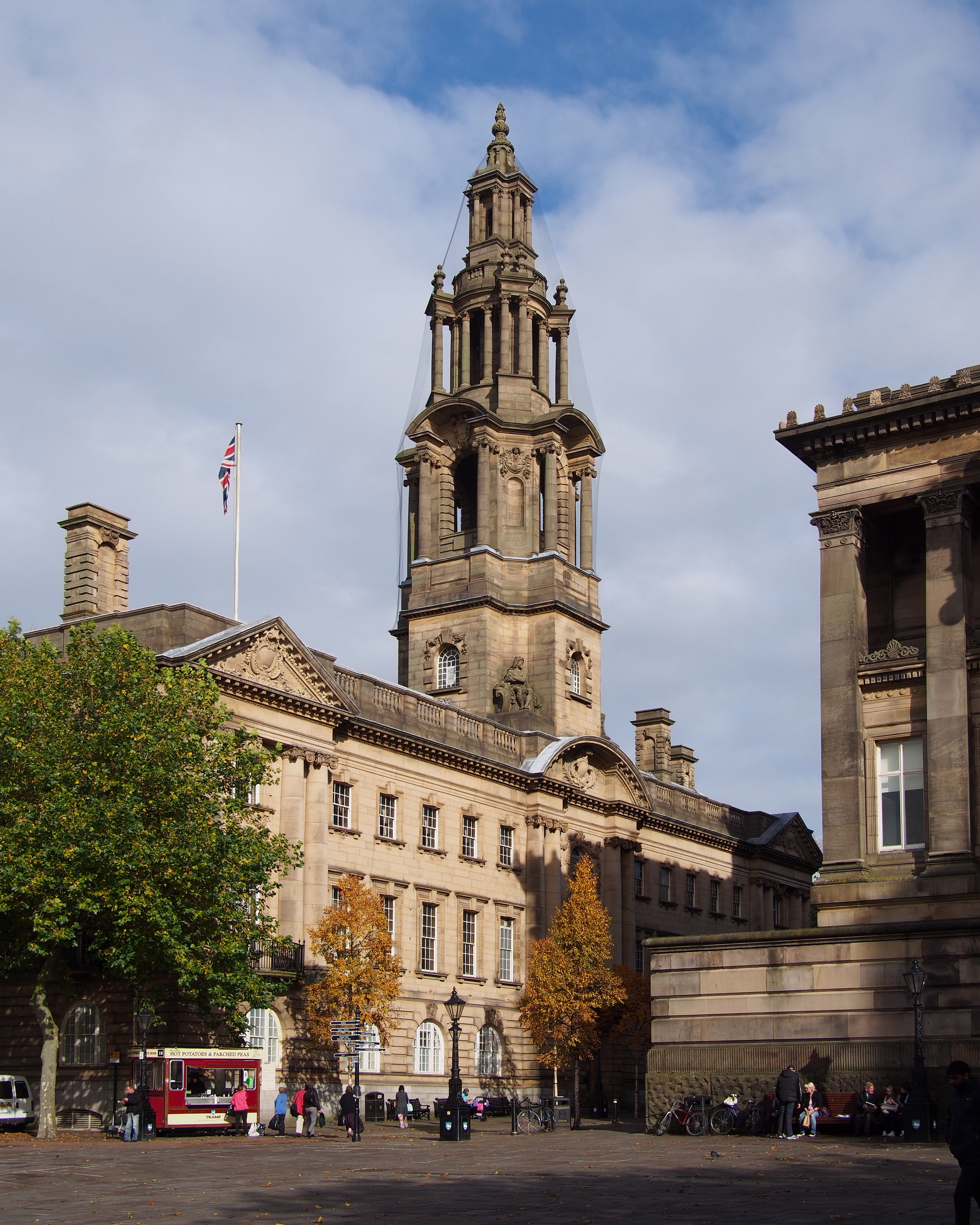 Session House, Preston